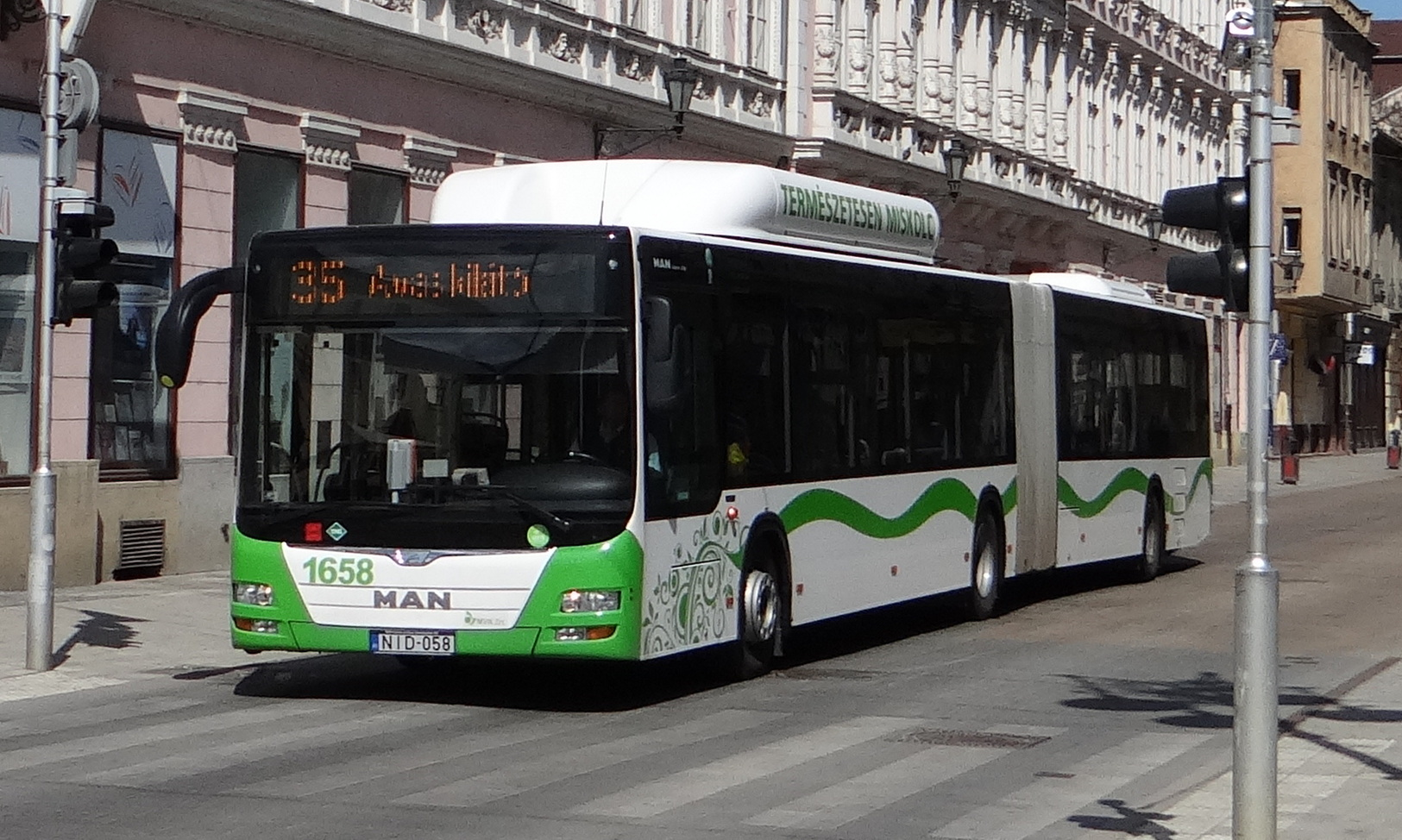 CNG articulated bus in Miskolc, Hungary (MAN)